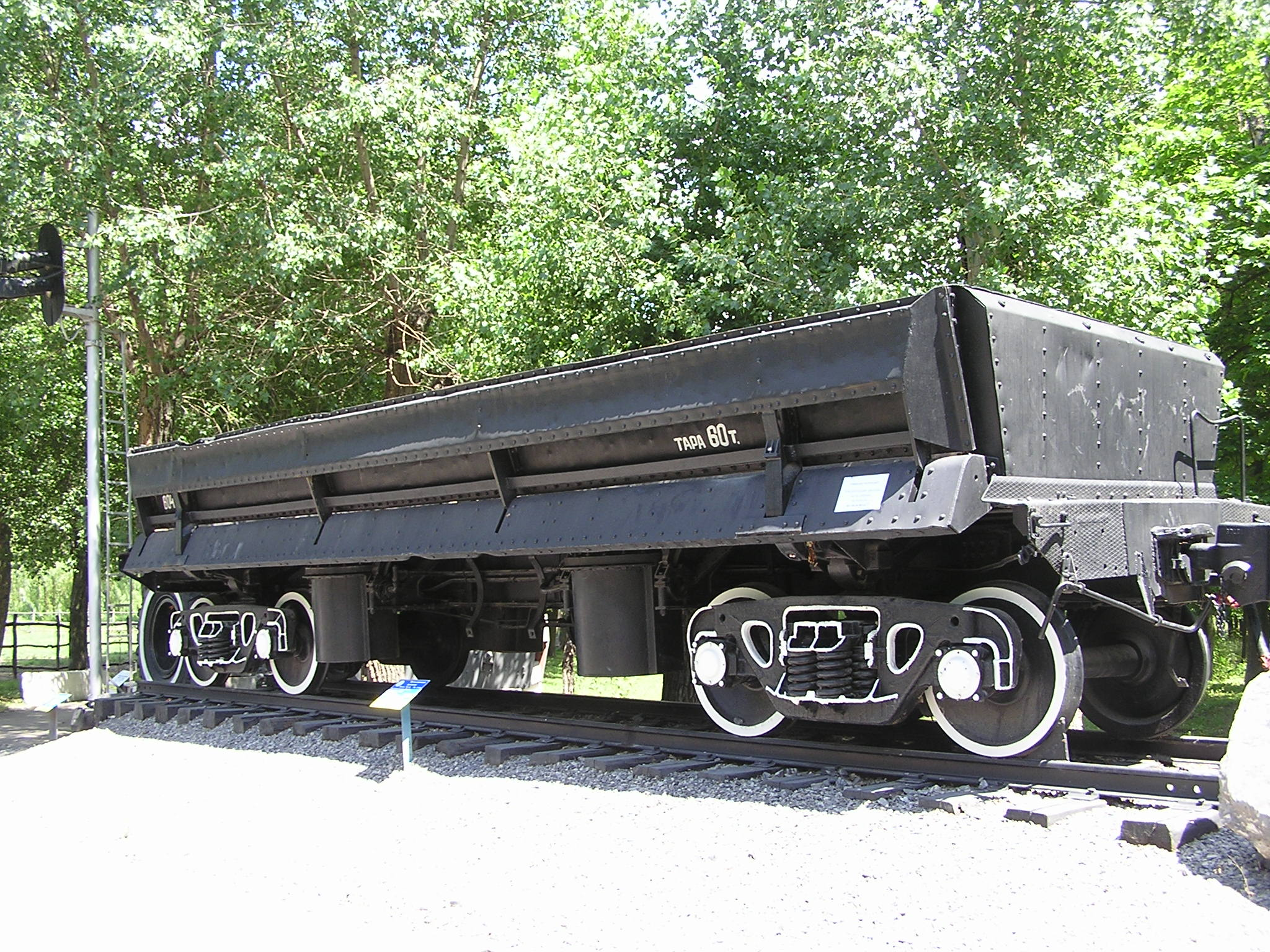 Dumper wagon model 7VS-60, type 31-661 at Museum of Dokuchaevsk flux-dolomite сombined plant